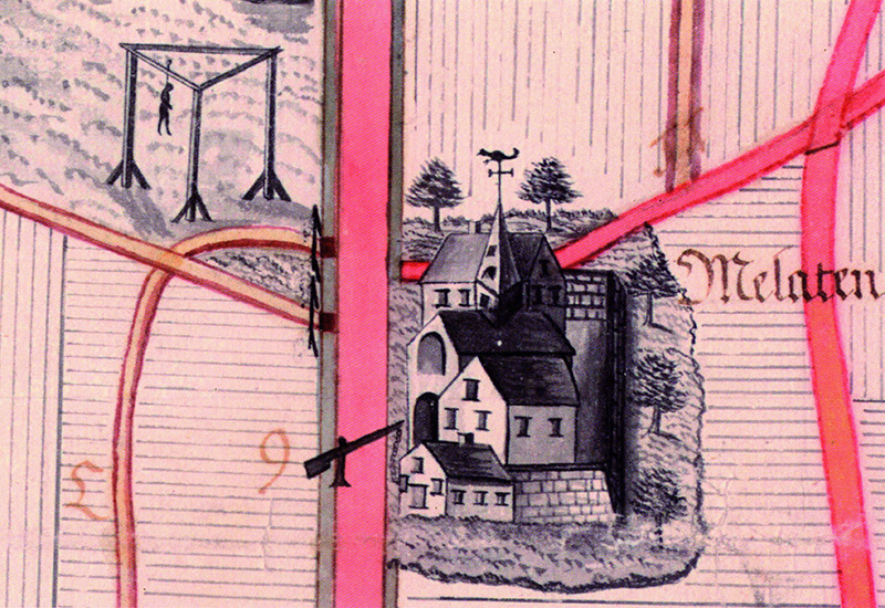 Map by Queckenberg - Hof Melaten near Cologne with execution side Rabenstein (1743)